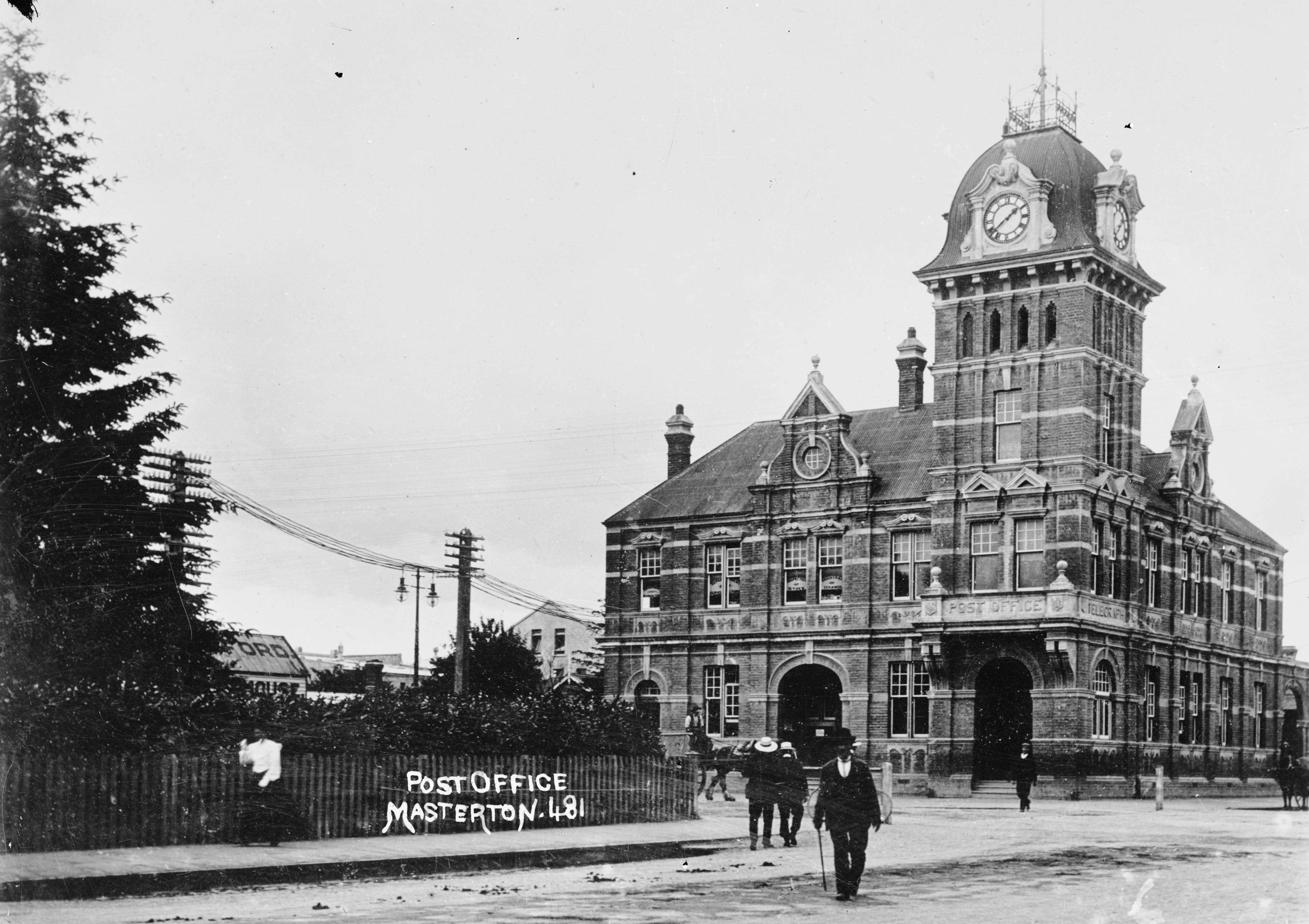 View of the Masterton Post Office, with clock tower. Photograph taken by William A Price in early 1900s. Inscriptions: Inscribed - Photographer's title on negative -bottom left: Post Office. Masterton. 481. William Archer Price lived and practised in Queen Street, Northcote, 1909-1910. Source: New Zealand Post Office directories Quantity: 1 b&w original negative(s). Physical Description: Dry plate glass negative 4.75 x 6.5 inches Post Office, Masterton. Price, William Archer, 1866-1948 :Collection of post card negatives. Ref: 1/2-001559-G. Alexander Turnbull Library, Wellington, New Zealand.